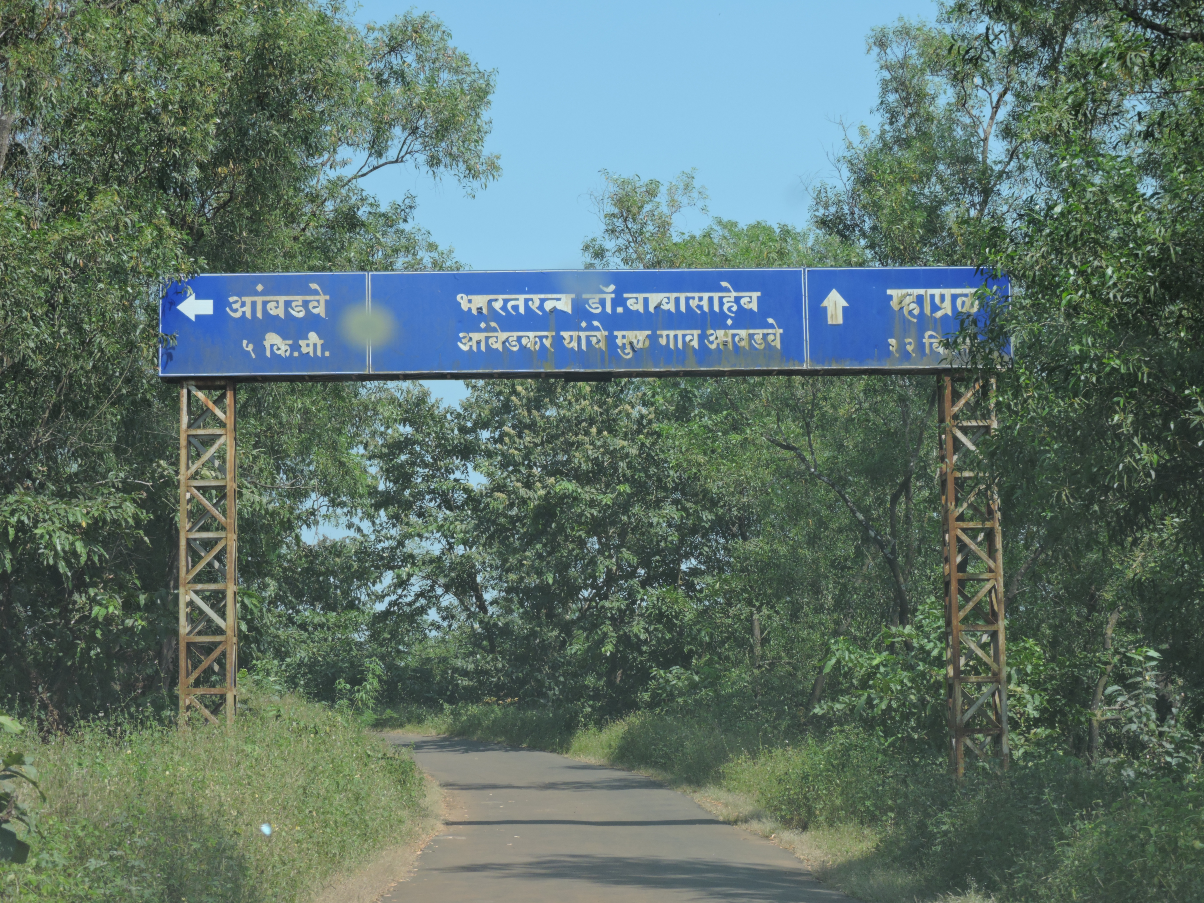 Remaining distance to Ambadave